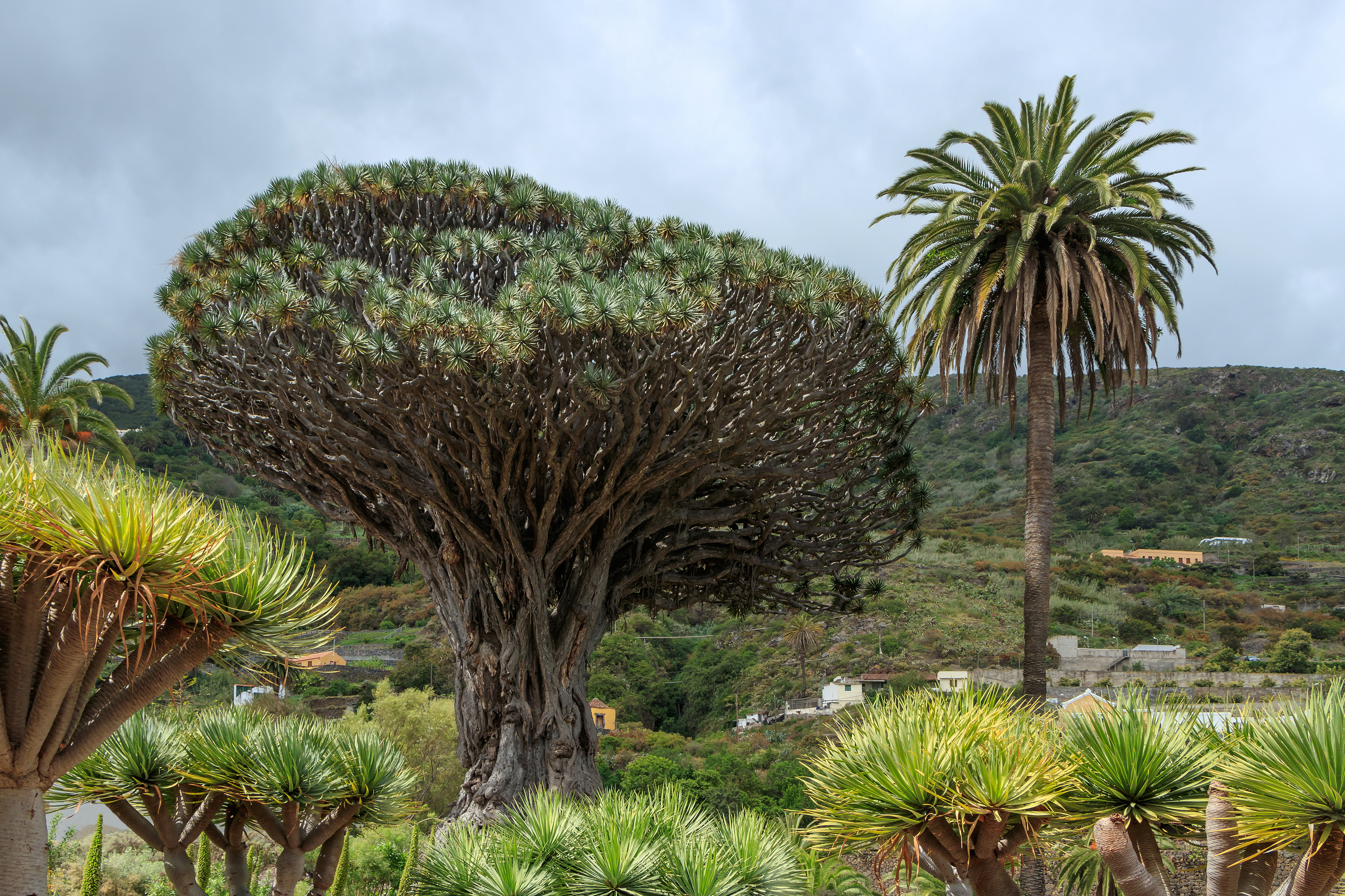 Drago de Icod de los Vinos, Icod de los Vinos, Tenerife, Canary Islands, Spain.